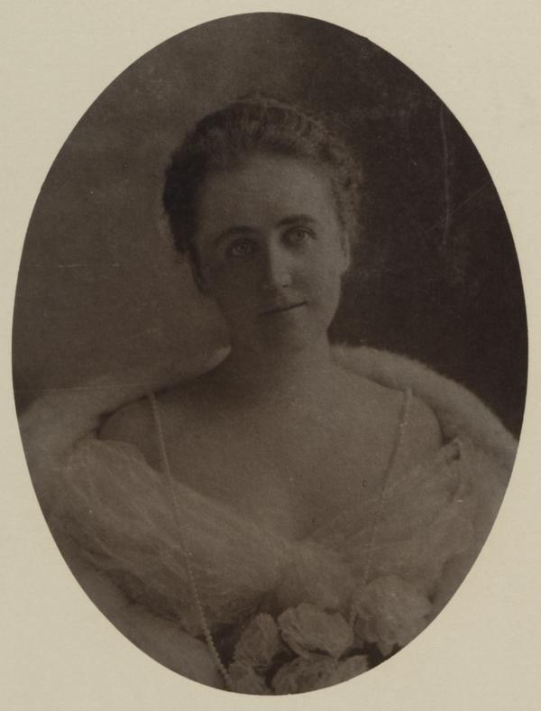 Title Bessie (Gardner) du Pont, 1864-1949 Date Created (start) 1880 Date Created (end) 1900 Former owner Du Pont, Pierre S. (Pierre Samuel), 1870-1954 Subject(s) - Name Du Pont, B. G. (Bessie Gardner), 1864-1949 Find all items with name(s) Du Pont, Pierre S. (Pierre Samuel), 1870-1954 Du Pont, B. G. (Bessie Gardner), 1864-1949 Genre portrait photographs Language English Type of resource still image Extent 1 photographic print : b&w Repository Audiovisual Collections and Digital Initiatives Department, Hagley Museum and Library